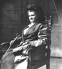 This is an image of Julia Tutwiler (1881-1916)[1]. Tutwiler is known as a staunch advocate for educational and prison reforms in Alabama.